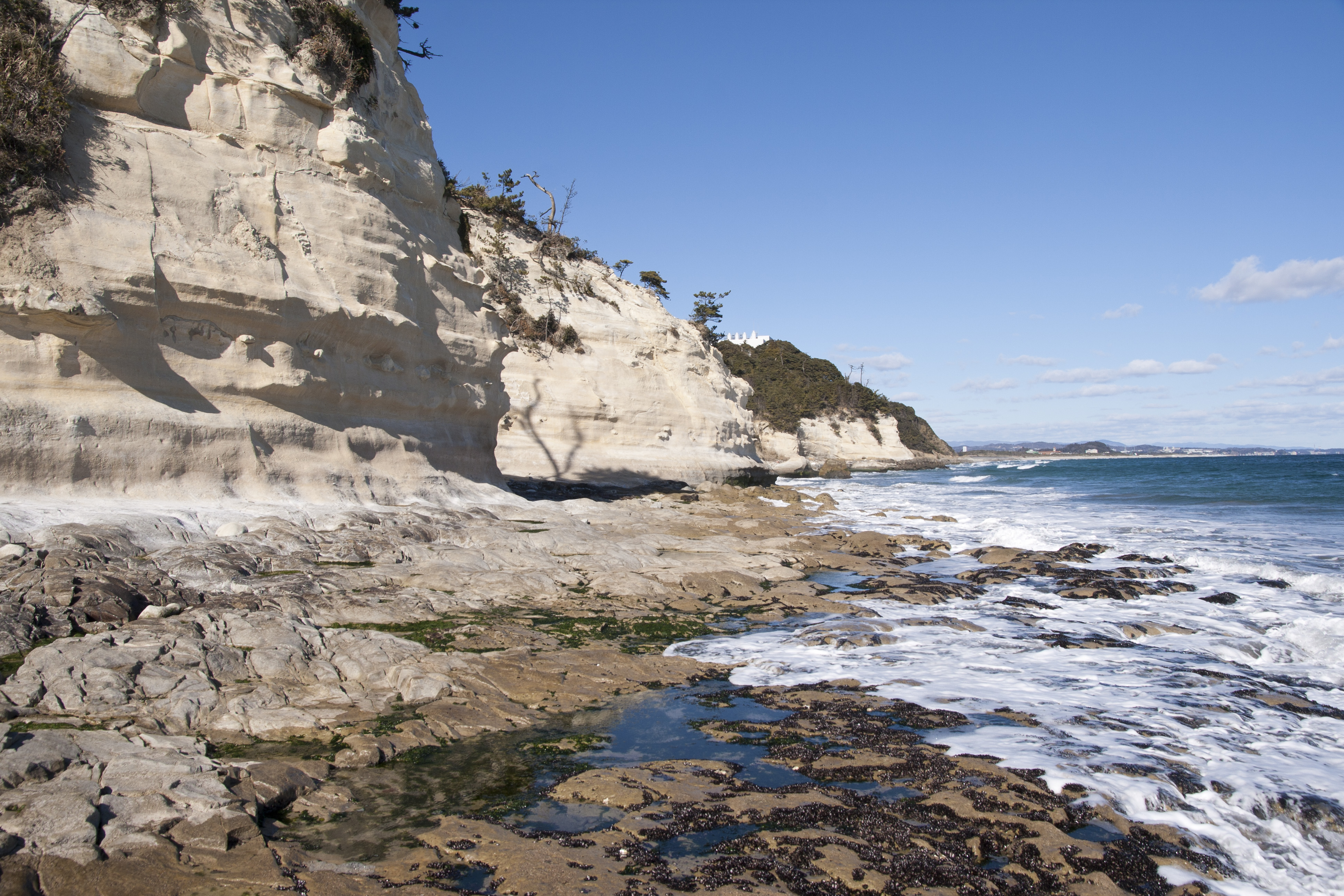 Takado Coast, Takabagi City, Ibaraki Prefecture, Japan.